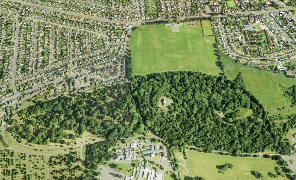 Mills Observatory. Located in balgay park in Dundee, United Kingdom.